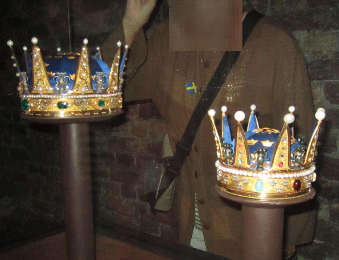 Coronet of a Prince of Sweden (made for Prince Oscar, Duke of East Gothland in 1844) and a Princess of Sweden (made for Princess Eugenie in 1860) as shown to public on National DayPlace: Royal Treasury, Stockholm Palace, Sweden